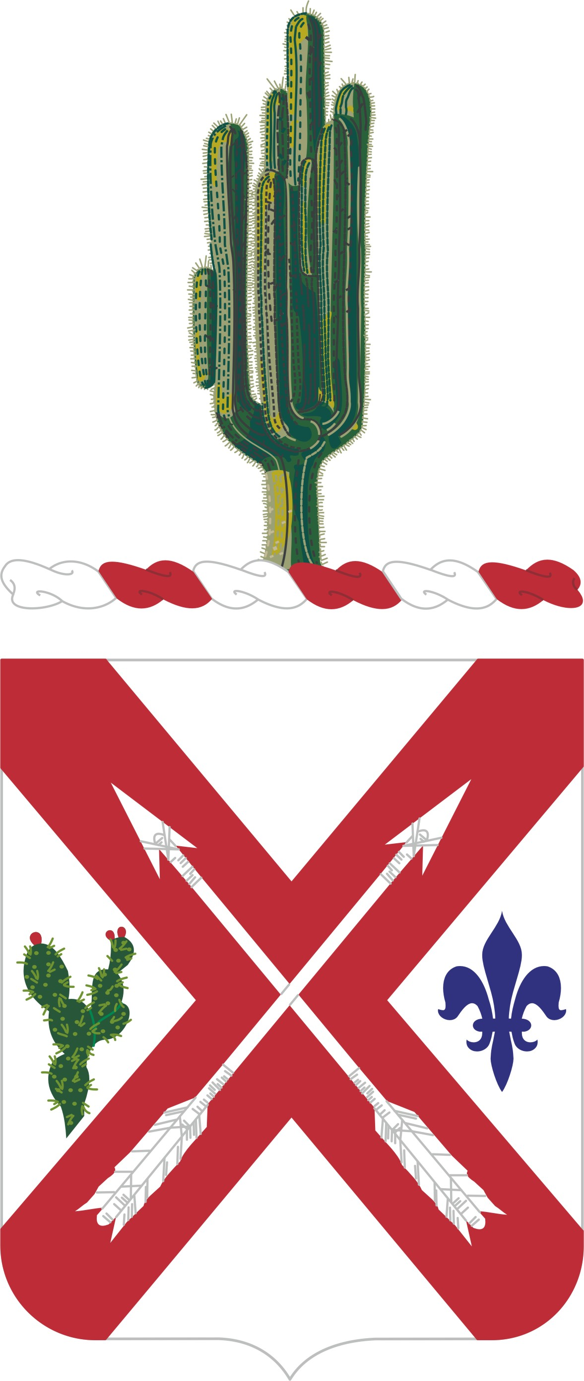 158th Infantry Regiment coat of arms